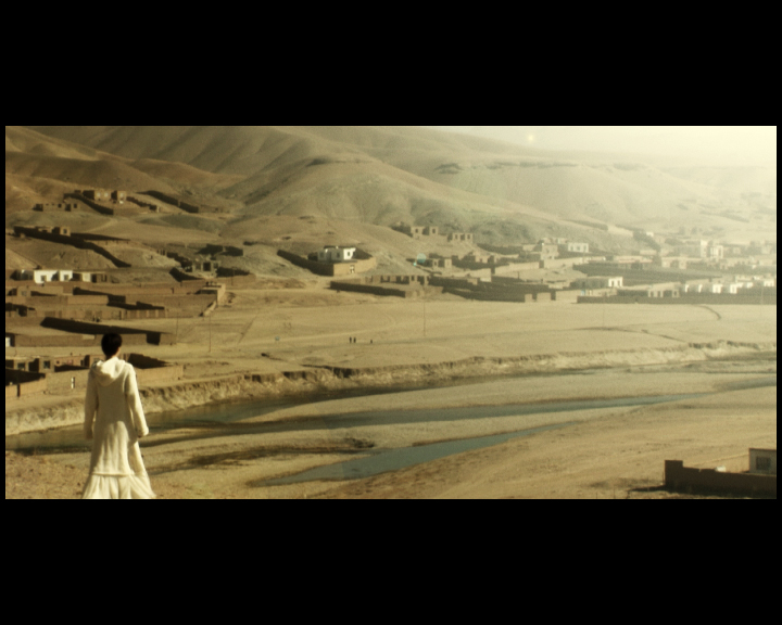 The moment from Jurga's video Smelio Zmones/Sandman's Child filmed in Afghanistan (in 2007)